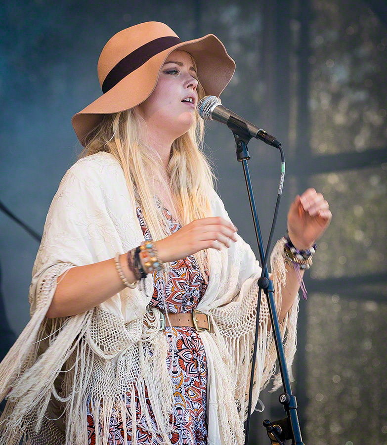 Smith & Thell at the minor stage during Stavernfestivalen in Stavern on 09. July 2016. Lineup:Maria Jane Smith (vocal)Victor Thell (guitar / vocal)Unidentified (double bass)Unidentified (keyboard)Unidentified (percussion)Unidentified (bass)